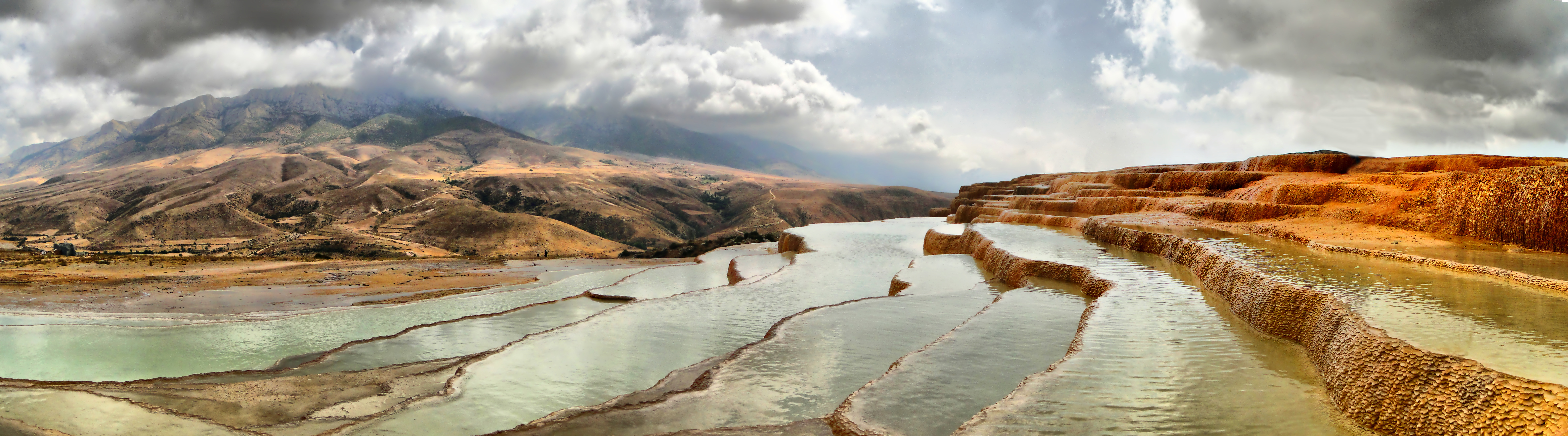 Badab-e Surt, Mazandaran, Iran